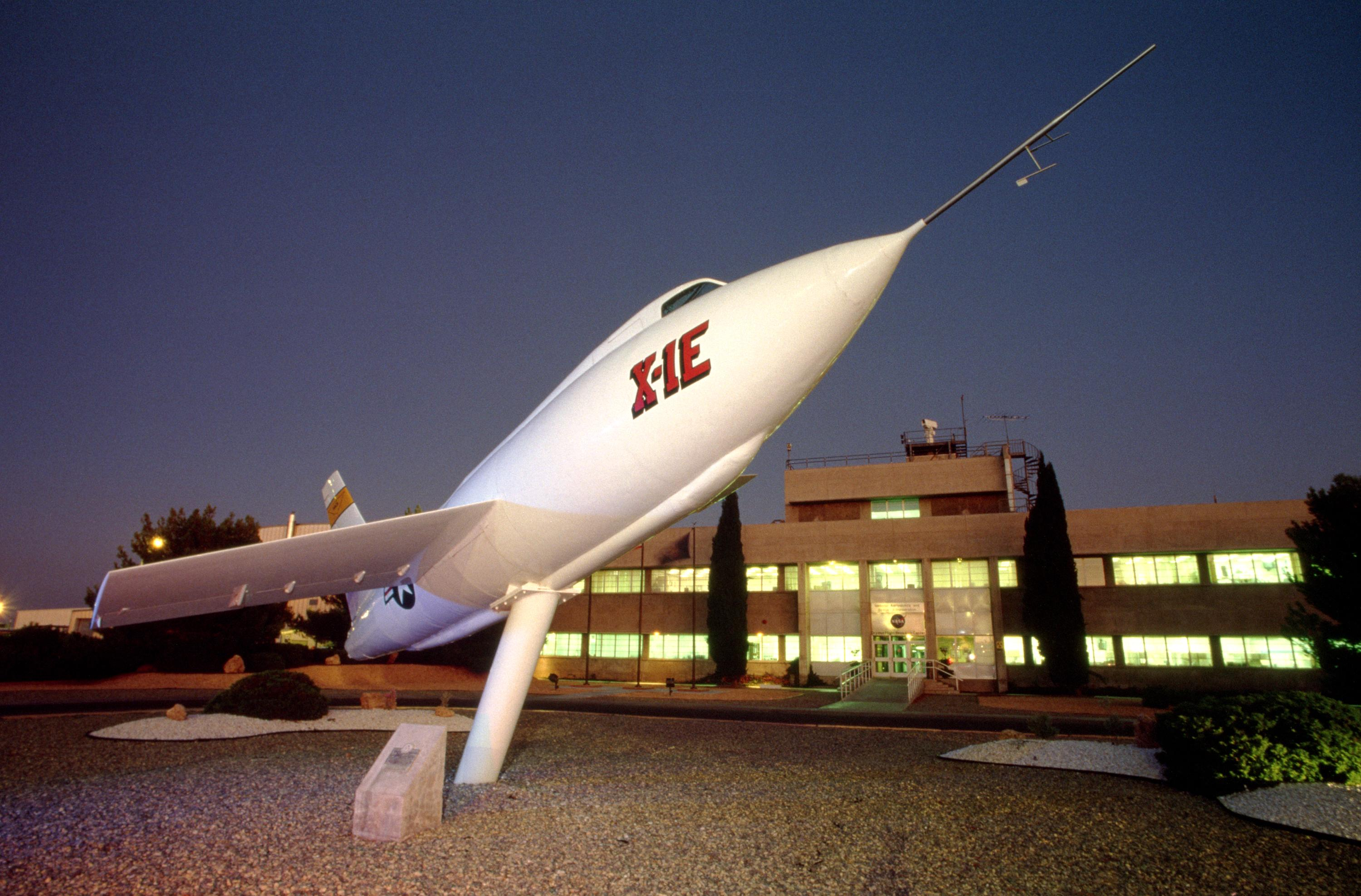 Bell X-1E experimental aircraft on display outside NASA Dryden Flight Research Center's main building